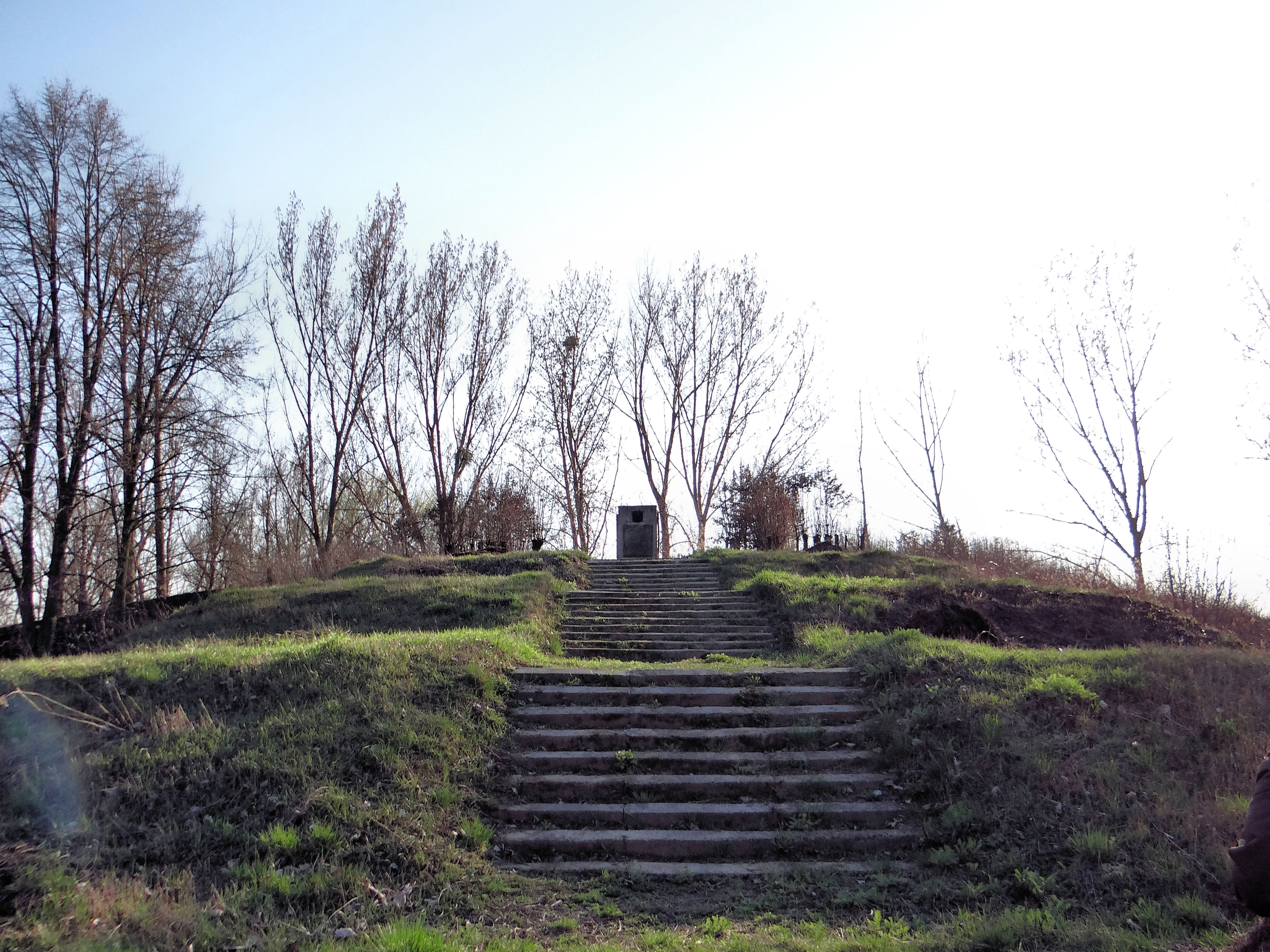 Kurhan Cpl. Michael Okurzałego in Zajezierze